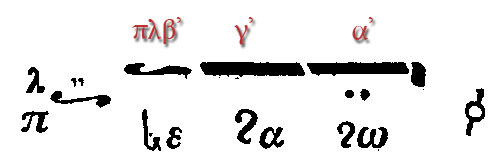 Medieval enharmonic phthora nenano (19th-century reception of Byzantine chant)